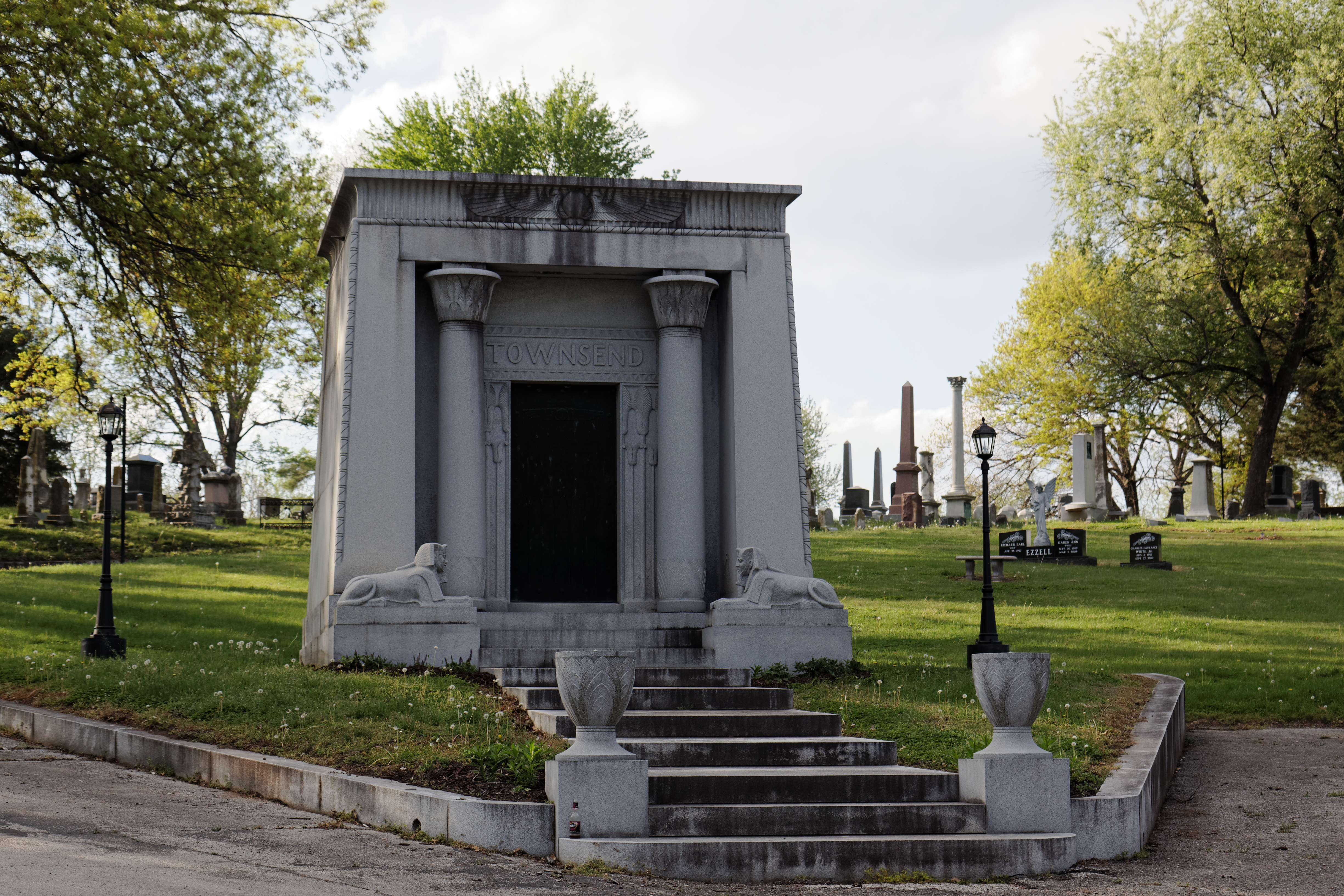 Mt. Mora St. Joseph, MO